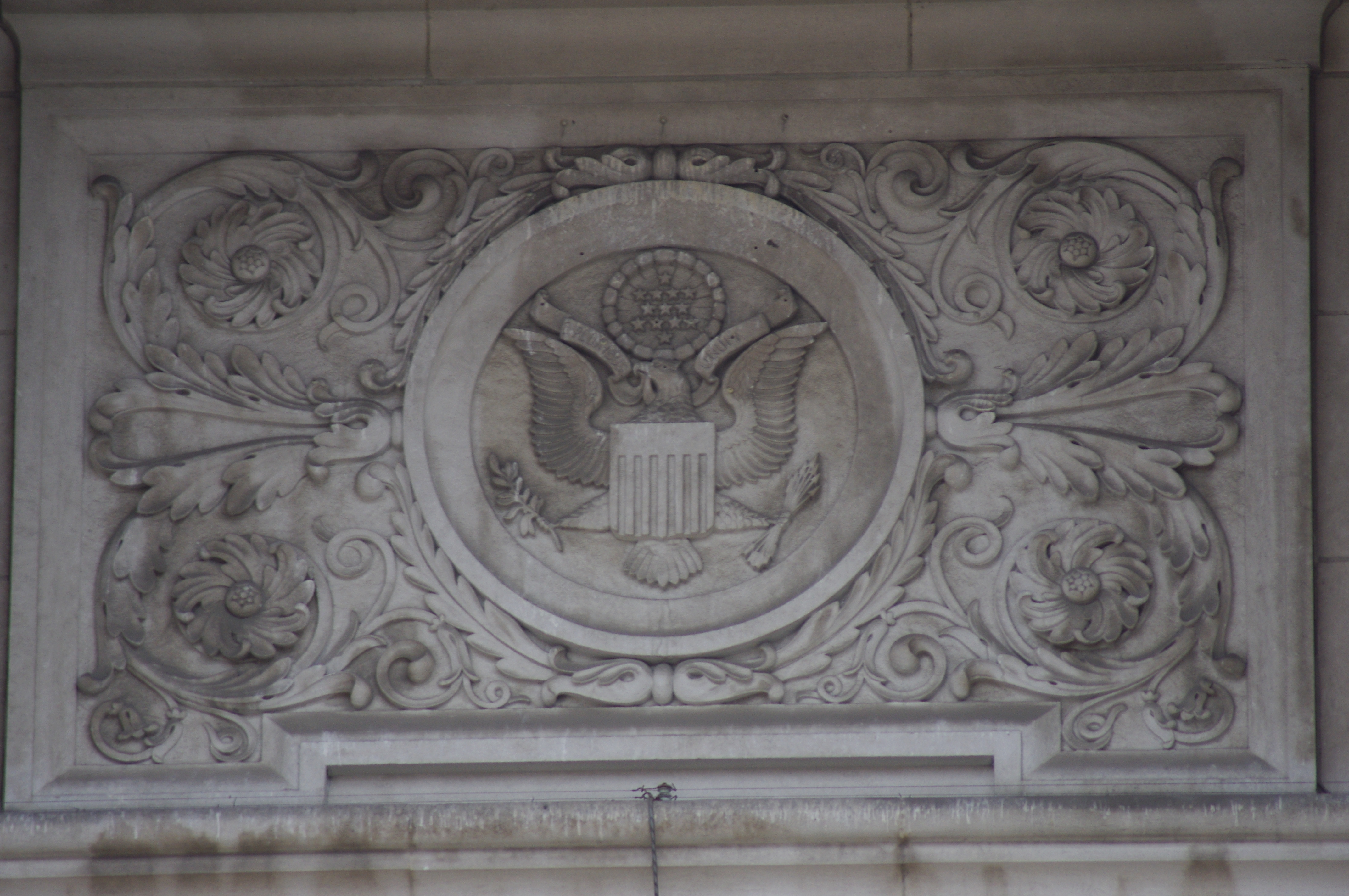 Saints Peter & Paul Cathedral (Indianapolis, Indiana), exterior, detail of the Great Seal of the United States